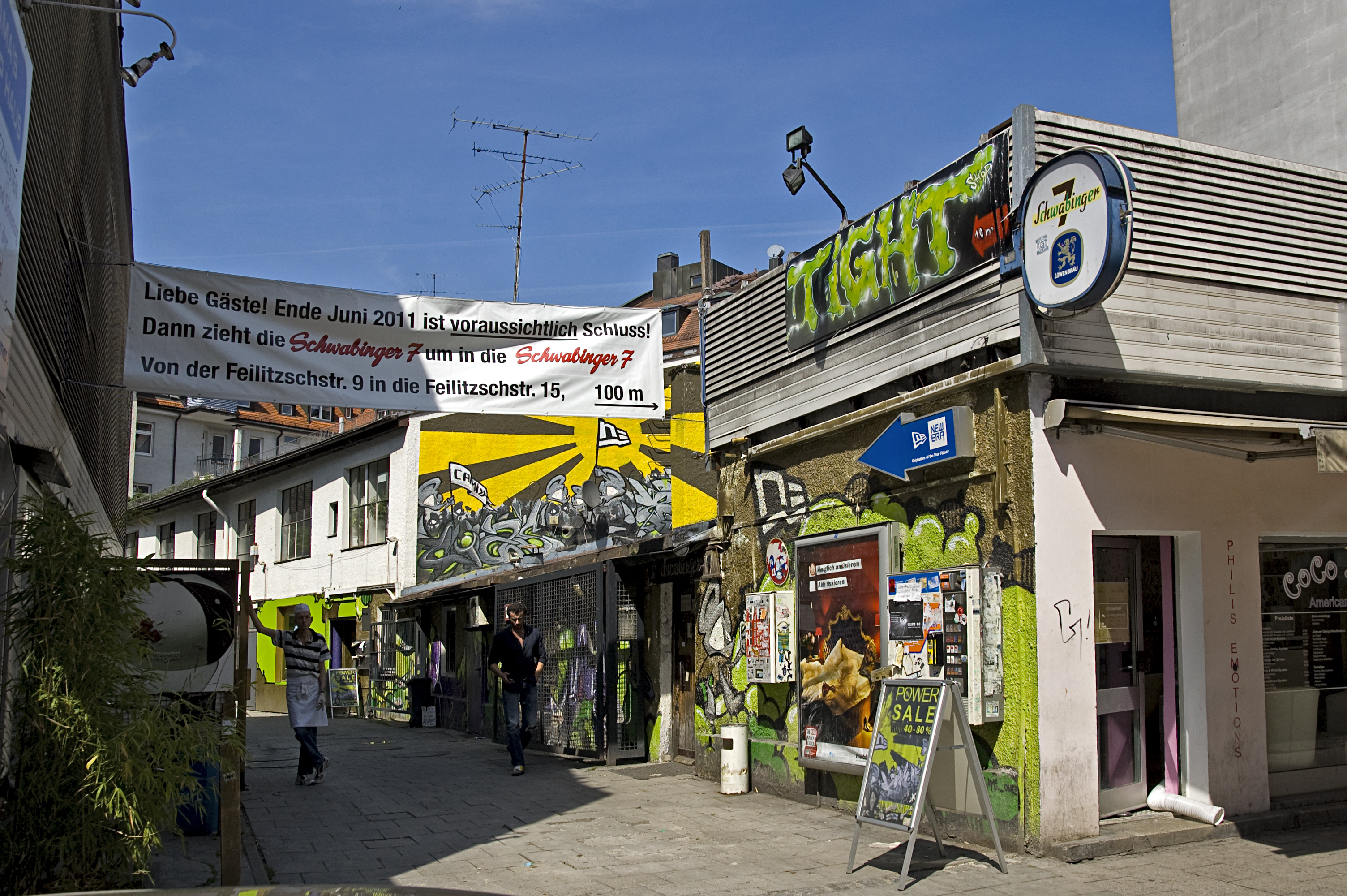 Munich bar